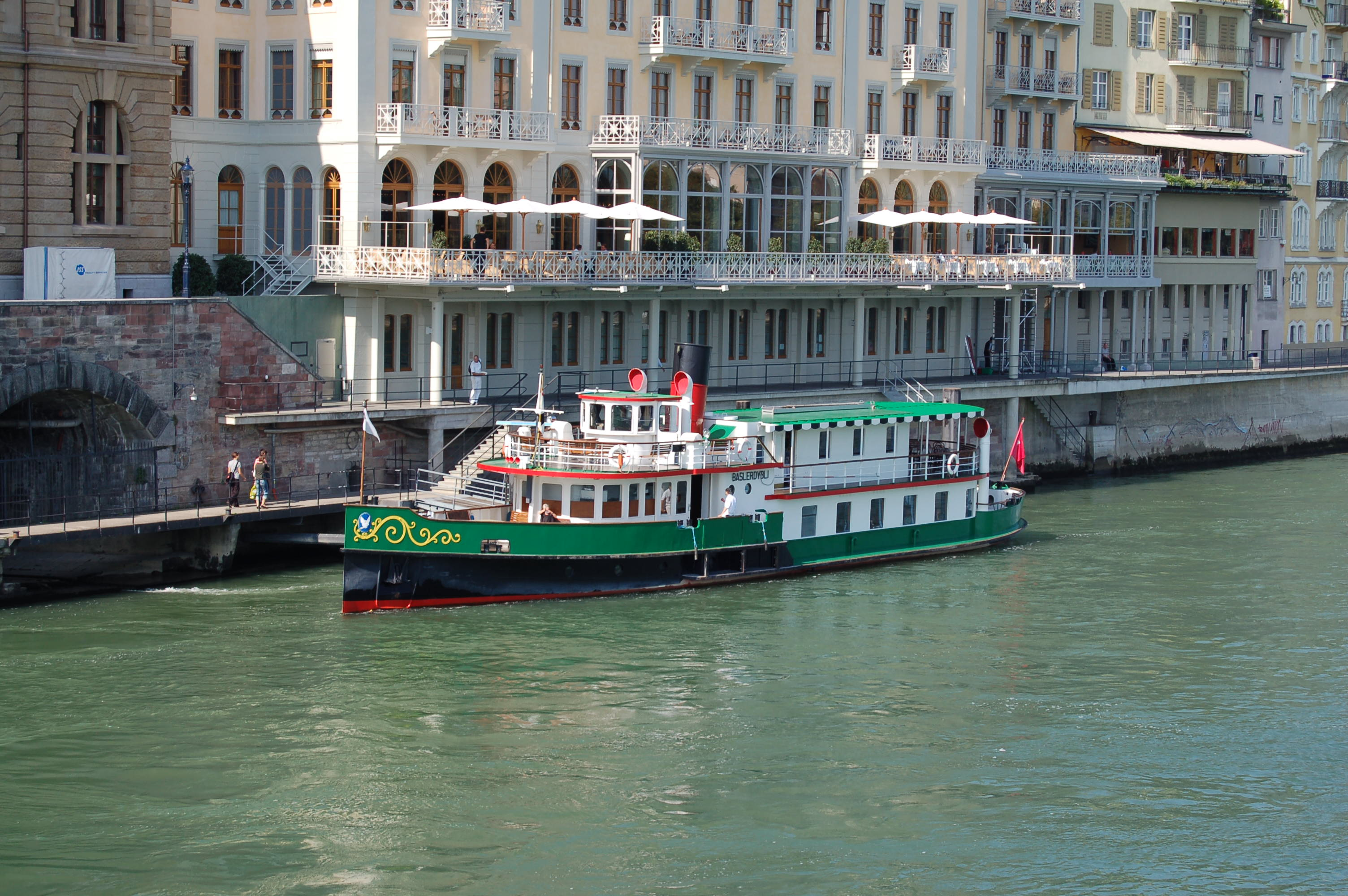 Baslerdybli at Schifflände/Hotel Les Trois Rois on the Rhine at Basle, Switzerland.